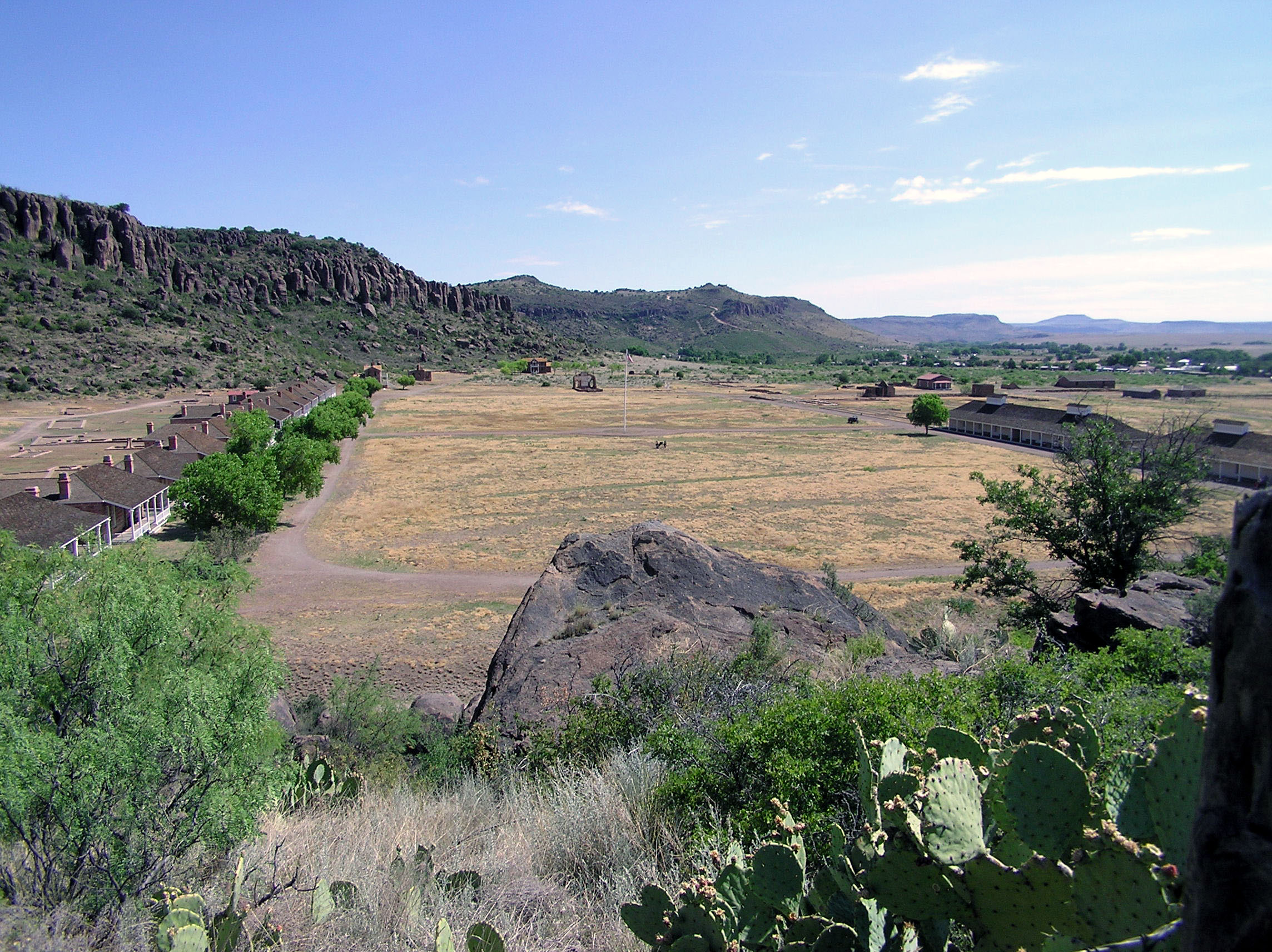 Location Fort Davis National Historic Site Description Fort Davis is one of the best surviving examples of an Indian Wars' frontier military post in the Southwest. From 1854 to 1891, Fort Davis was strategically located to protect emigrants, mail coaches, and freight wagons on the Trans-Pecos portion of the San Antonio-El Paso Road and on the Chihuahua Trail.